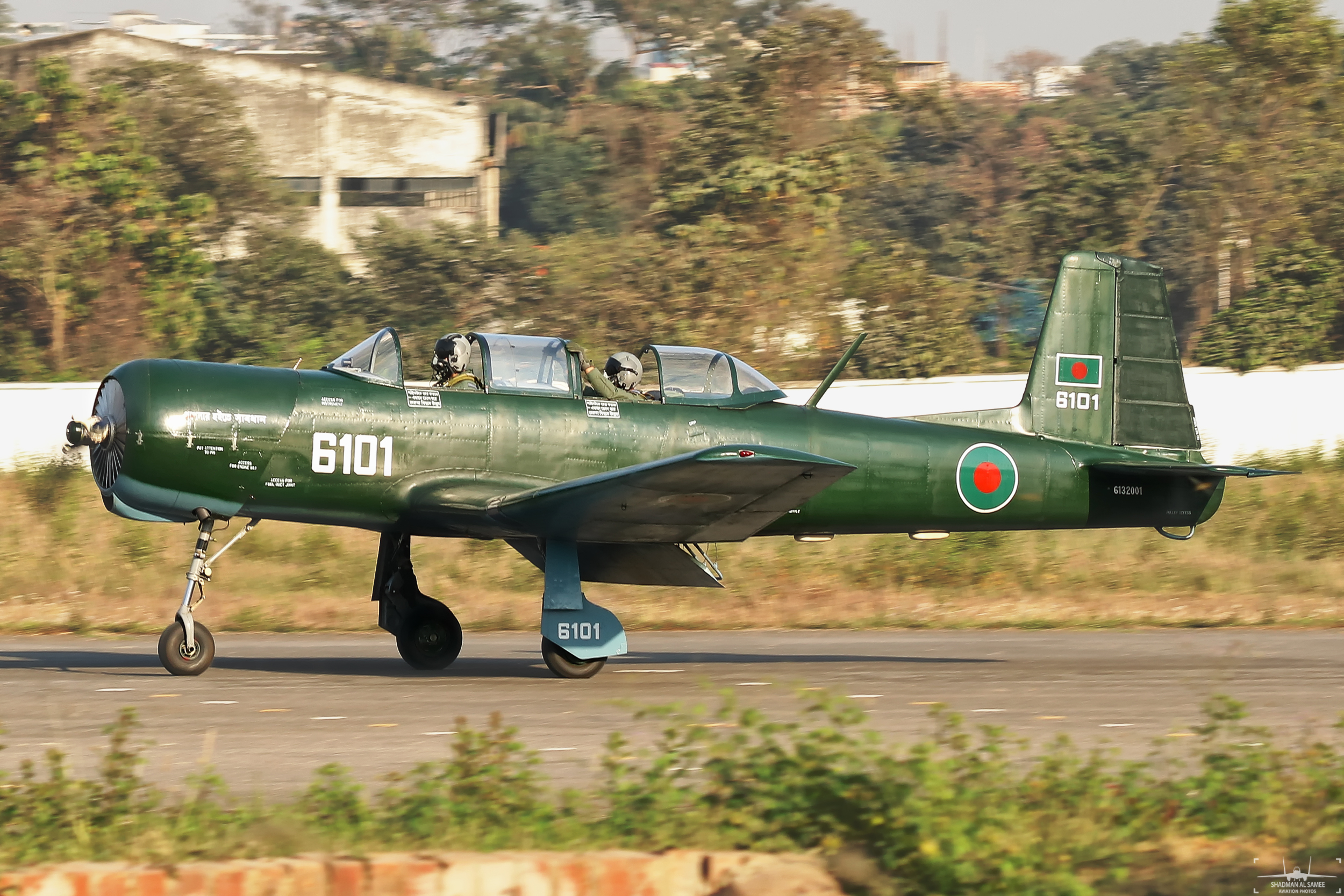 VGTJ 2018: Rookie from Jessore!